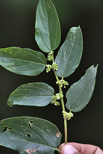 Pigeon Wood Trema orientalis. Kolkata, West Bengal, India